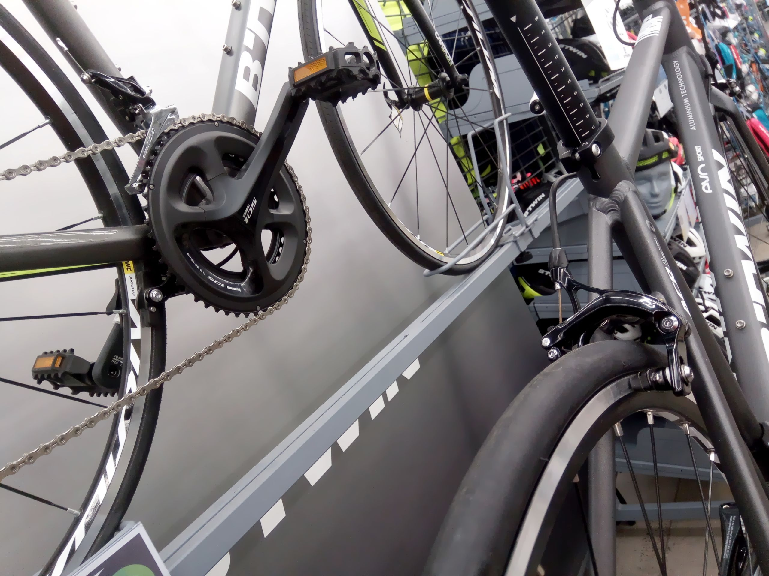 Two different positions for the rear bicycle brakes